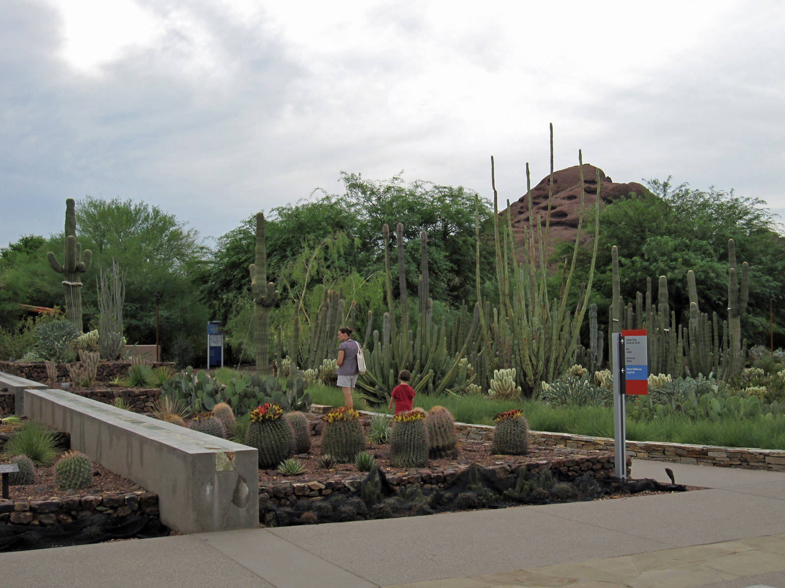 This botanical garden, located on the Phoenix-Scottsdale boundary, is a good look at many different kinds of desert plants that are found throughout the State of Arizona, as well as four human cultures that made their mark in the region: Akimel O'odham, Tohono O'odham, Apache, and the Spanish. It may be early September, when it should be simply too hot to be out and about during the daylight hours, but thanks to this unexpected thunderstorm, it is actually quite mild.